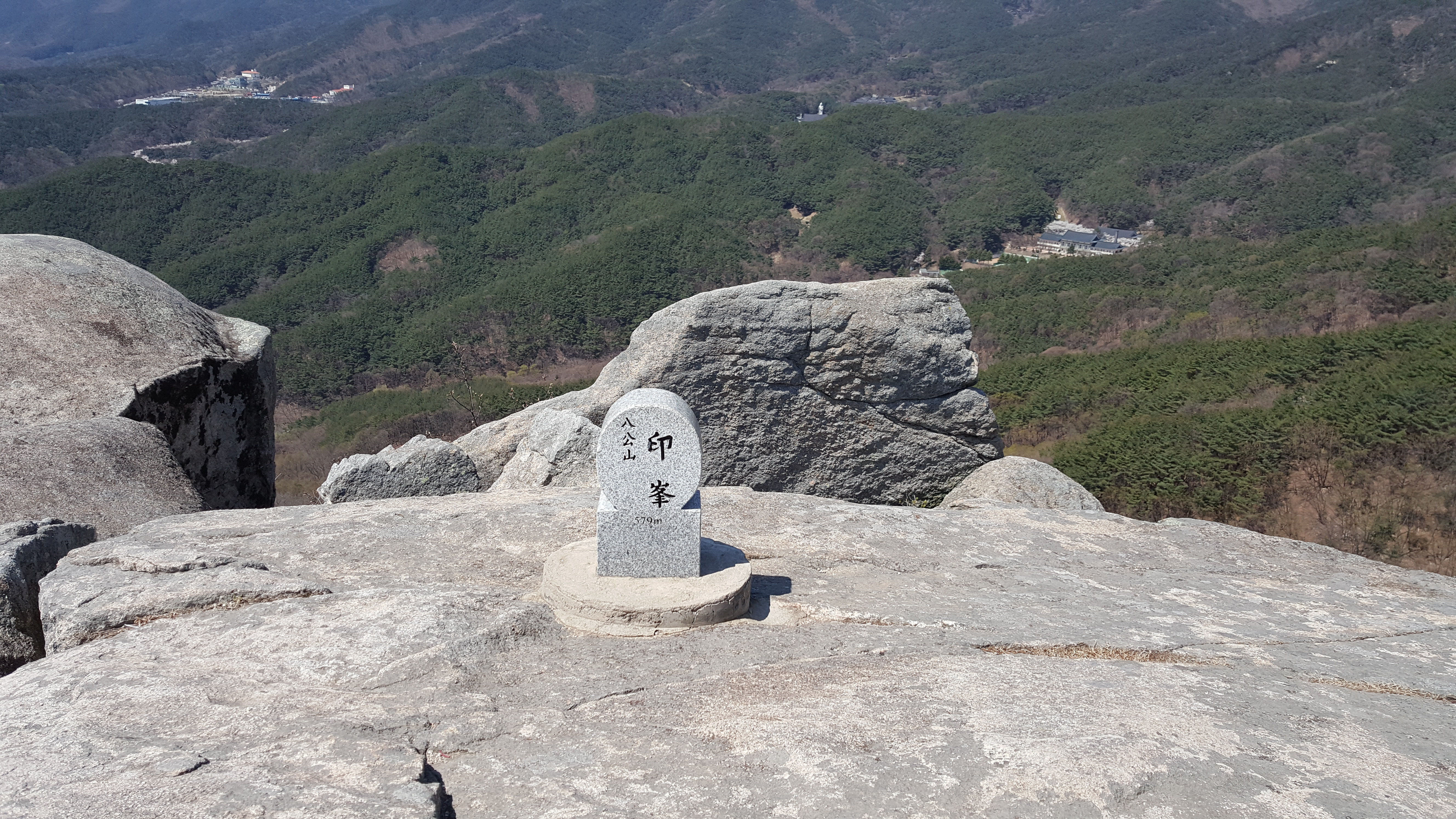 Inbong in Palgong Mt.